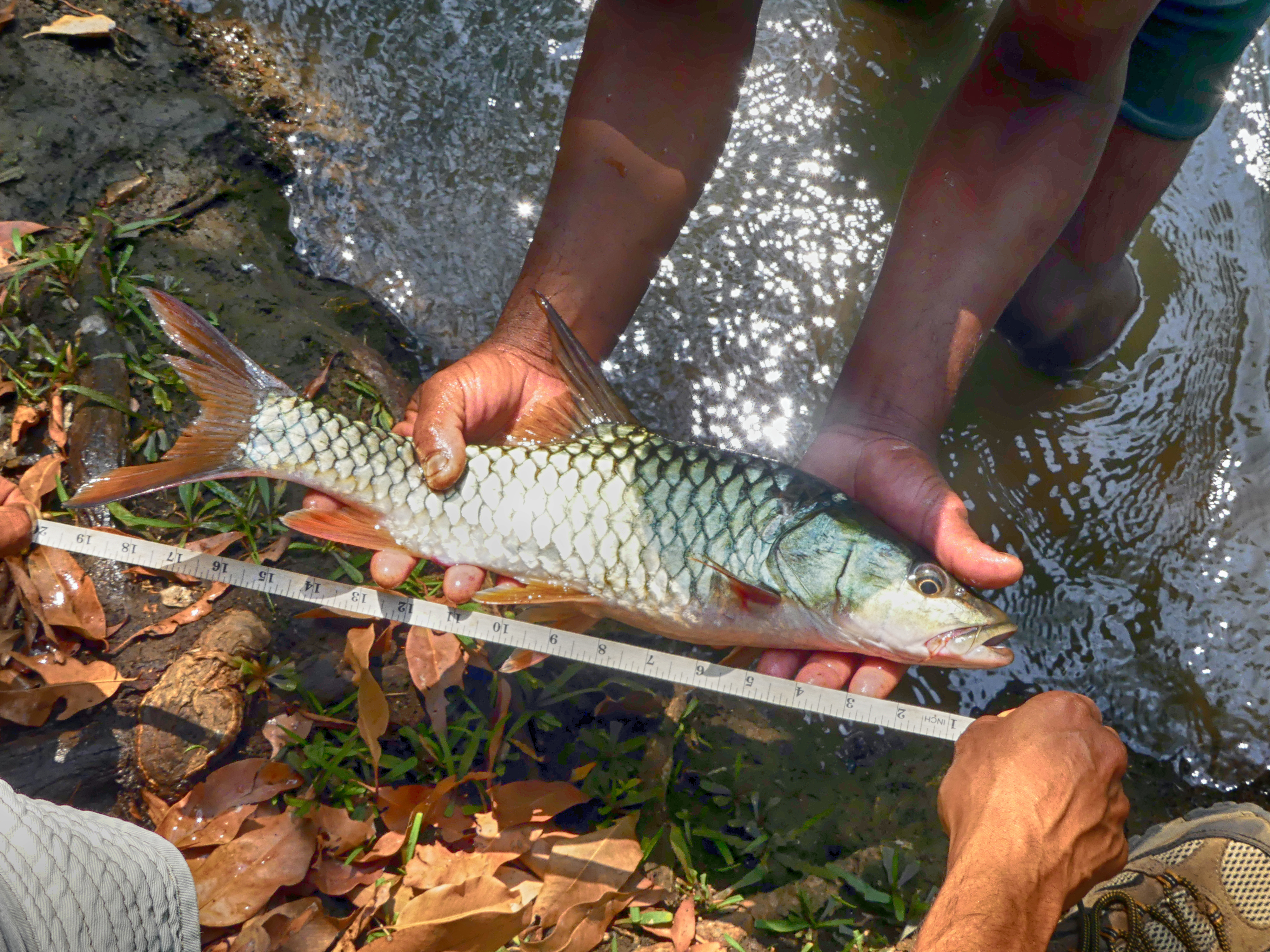 Orange-finned mahseer caught and released during a mahseer survey, India